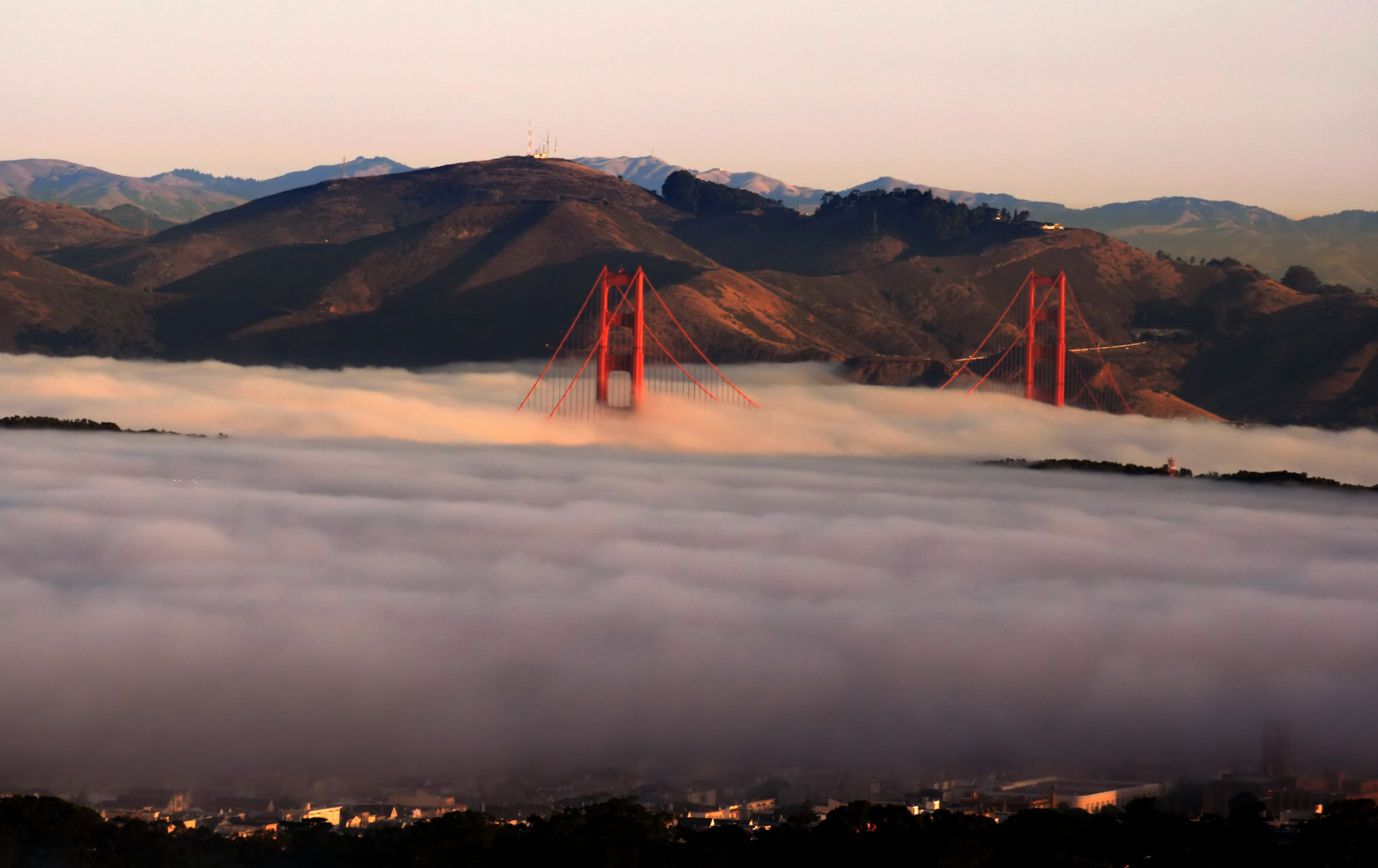 Golden Gate Bridge in fog as seen from Twin Peaks in San Francisco.